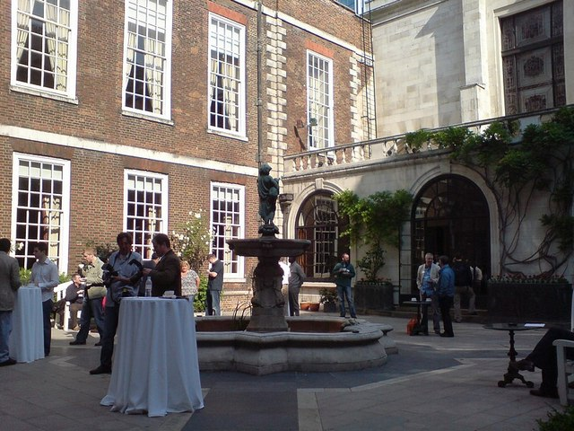 Merchant Taylors Hall, the courtyard The Merchant Taylors form one of the 12 great City Livery Companies, with a history going back to the 14th century on this site. Some of the buildings date from the late 17th century (having been built after earlier ones were destroyed in the Great Fire of 1666) and were restored after bomb damage during the Second World War. See the Merchant Taylors website